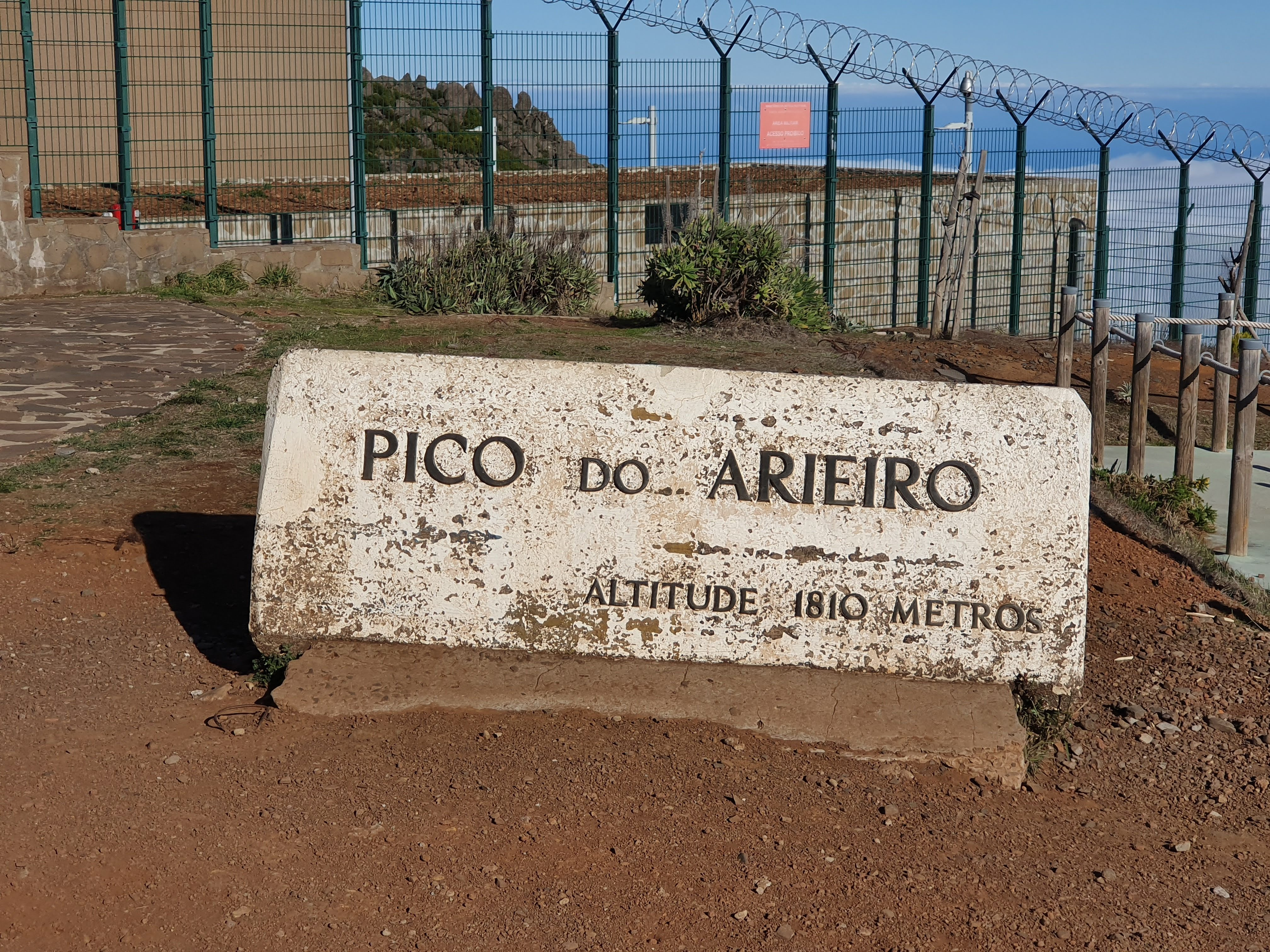 altitude point stone at the start of Vereda do Areeiro trail